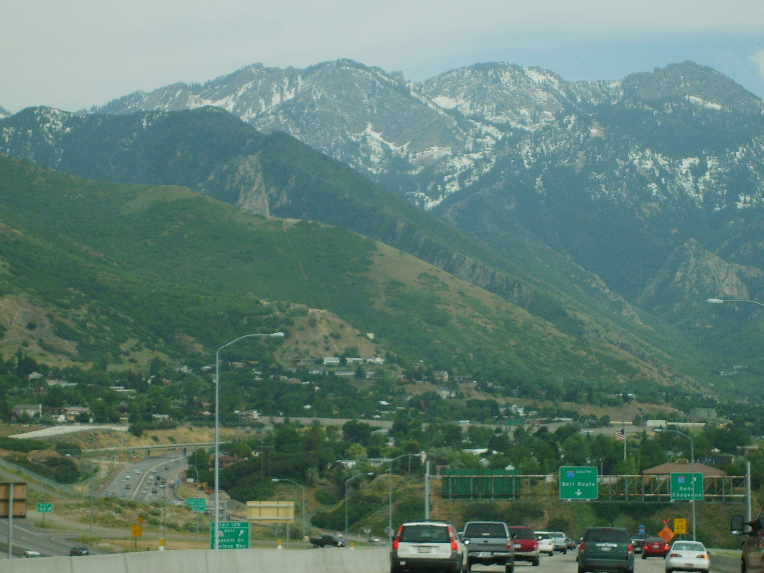 The end of Utah State Route 186 at a junction of Interstate 80 and Interstate 215, with the Wasatch Mountains in the background.